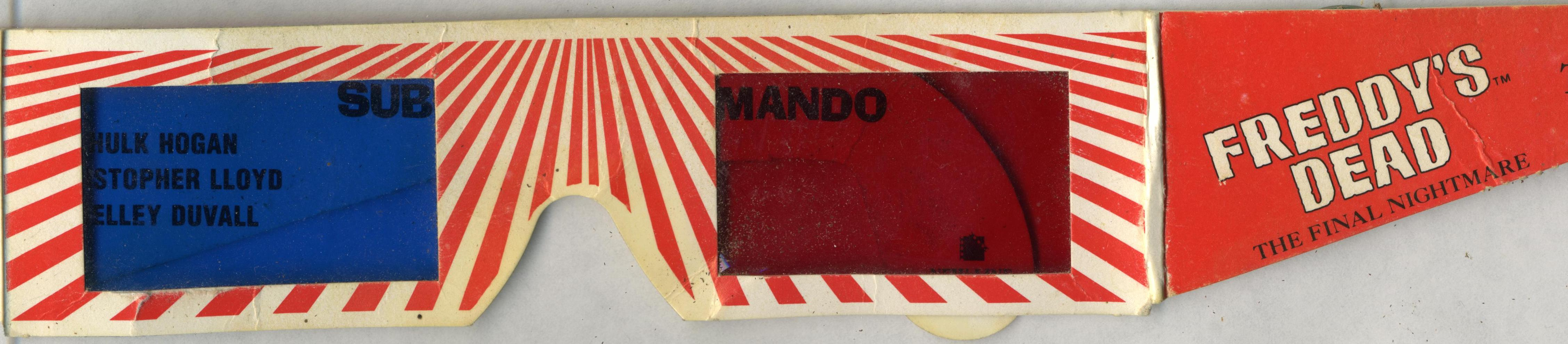 3D glasses from Freddy's dead